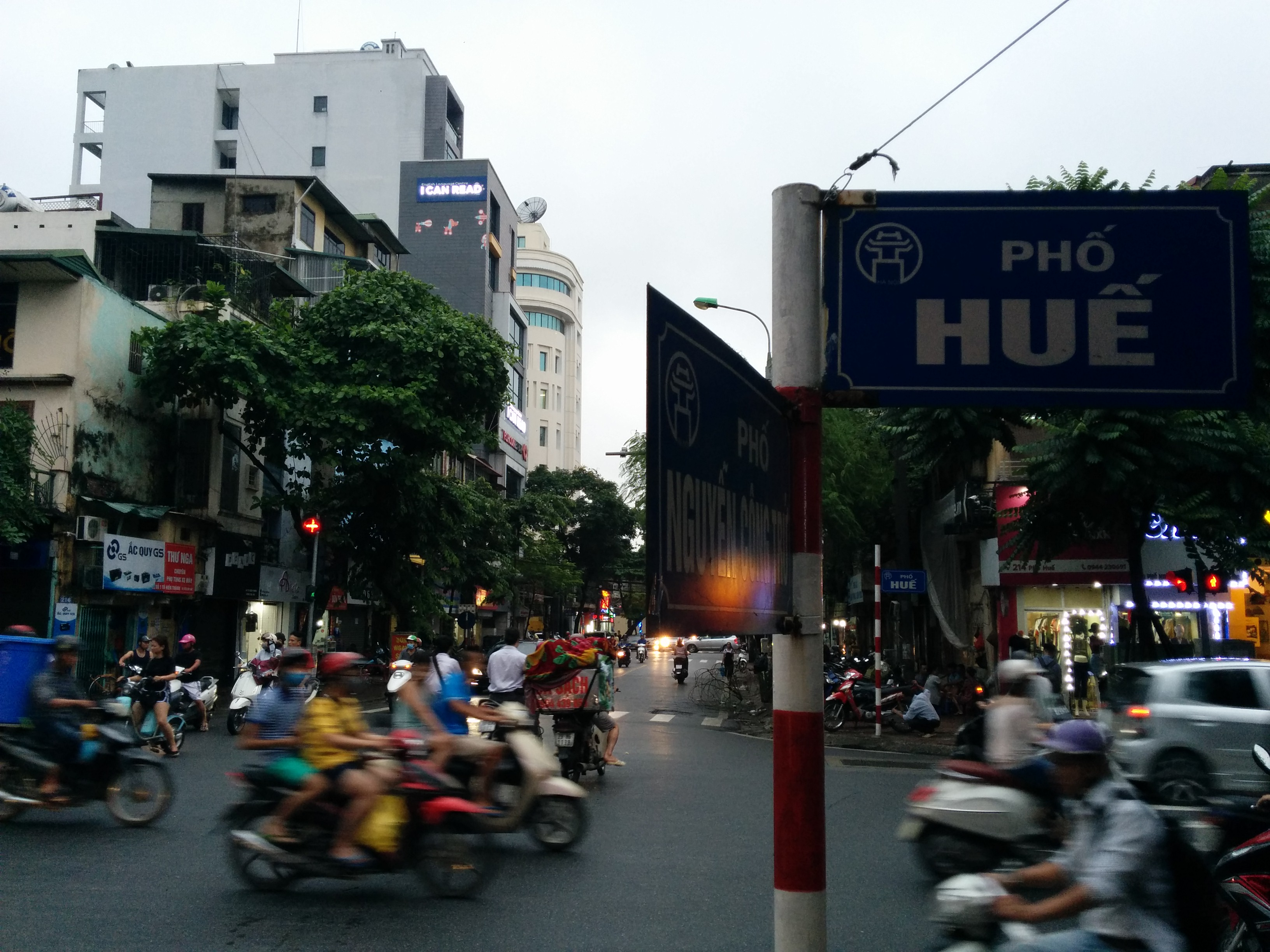 Shot from street.